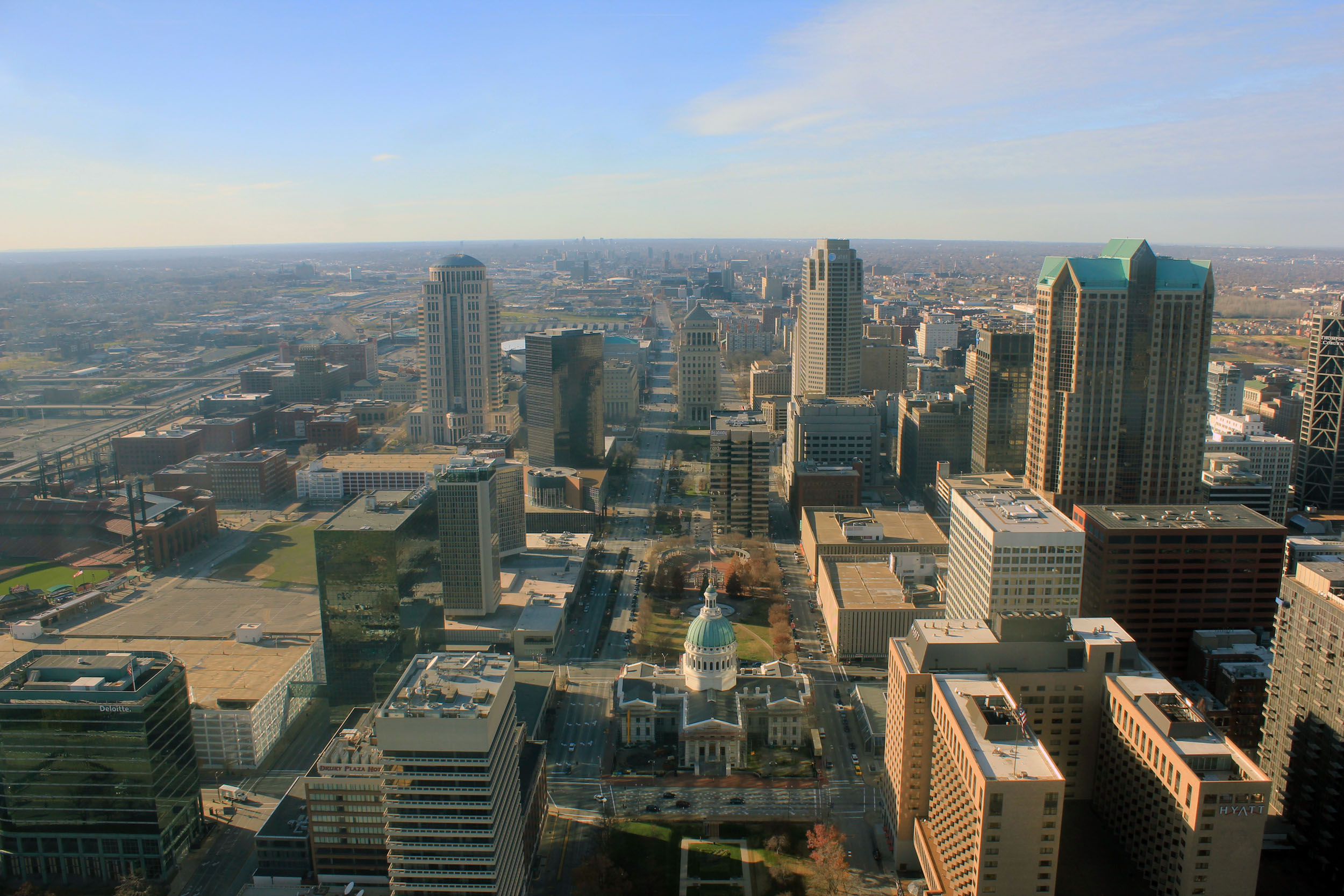 The Arch and many of the sights and scenes from St. Louis View of St. Louis city from the top of the Arch